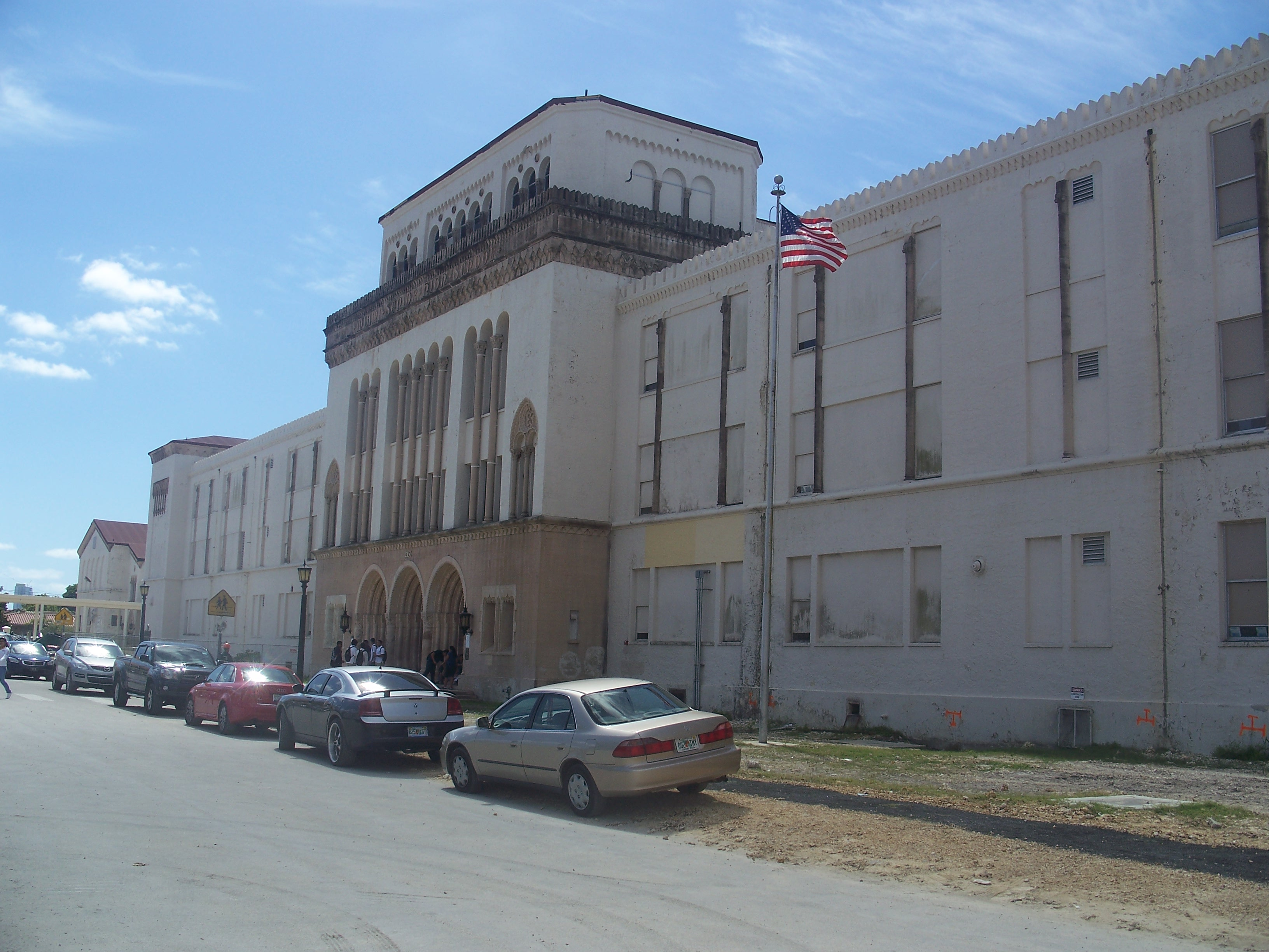 Miami, Florida: Miami Senior High School